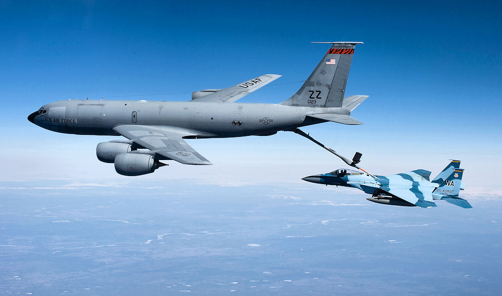 An F-15 Eagle from Nellis Air Force Base, Nevada’s 65th Aggressor Squadron receives fuel from a KC-135 Stratotanker assigned to the 909th Air Refueling Squadron here while flying the air war phase of Northern Edge 08. (U.S. Air Force photo/Master Sgt. Keith Brown)